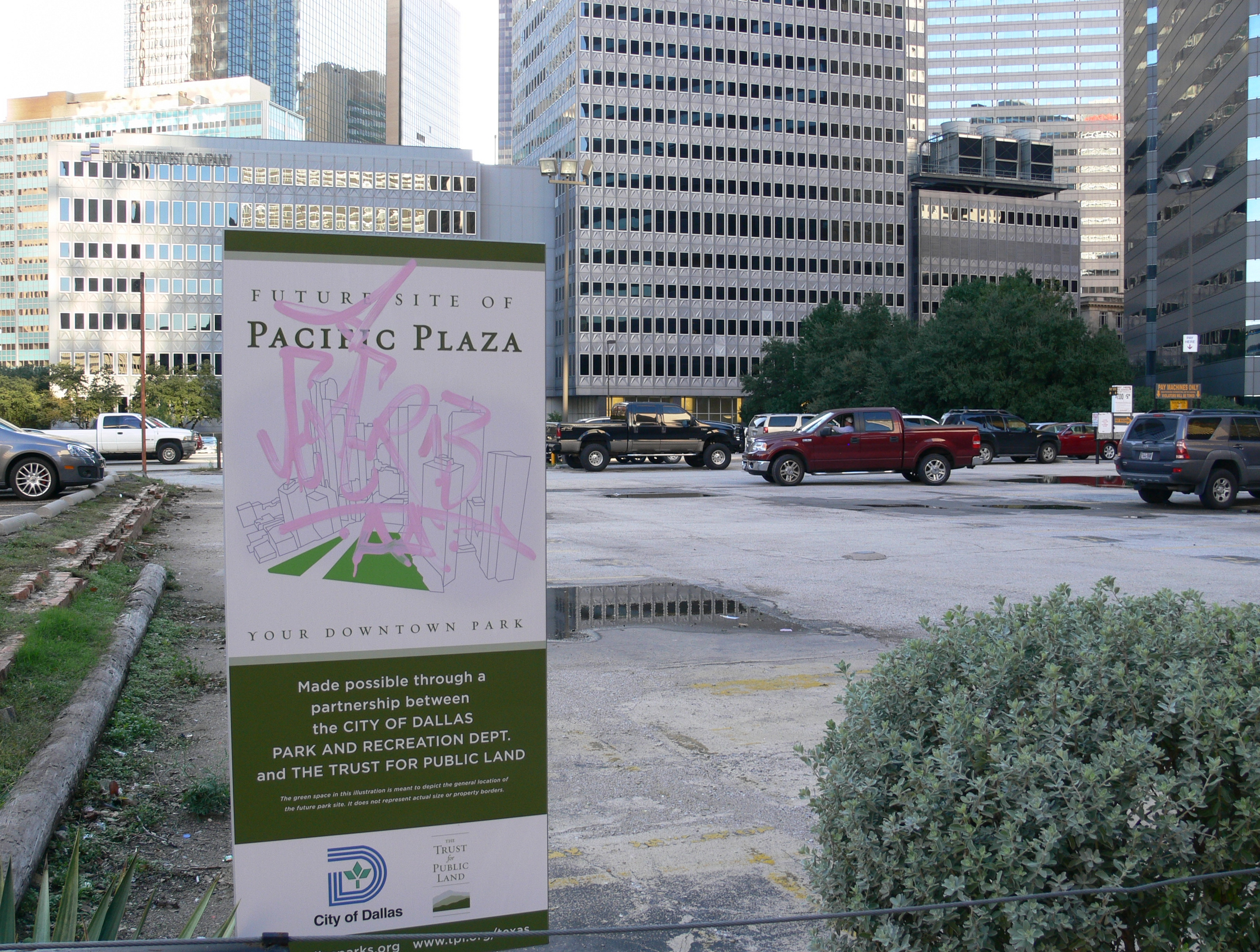 Dallas, Texas, Pacific Avenue: future site of Pacific Plaza park